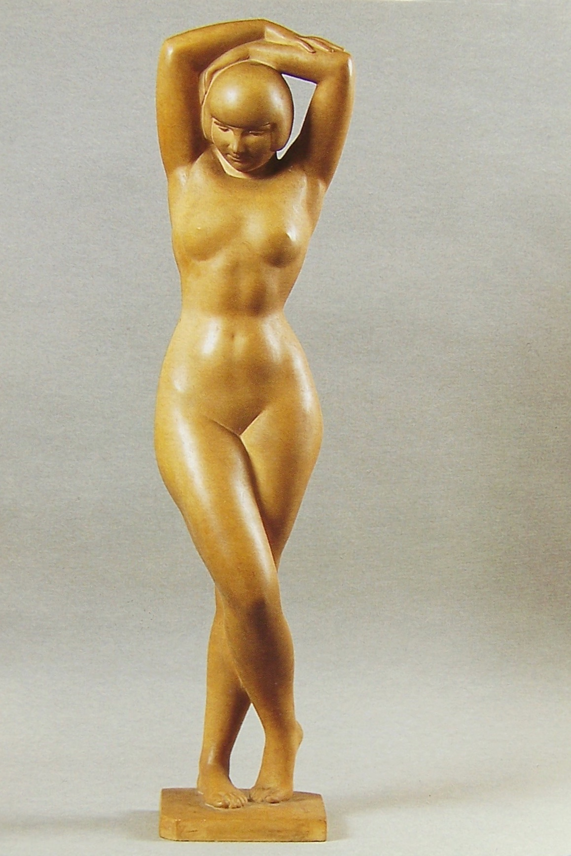 Feminine nude sculpture in ochred patina Seravezza marble, representing Lucy Krohg arms crossed above her head, and realised in direct cutting in 1920 by american sculptor Cecil Howard.